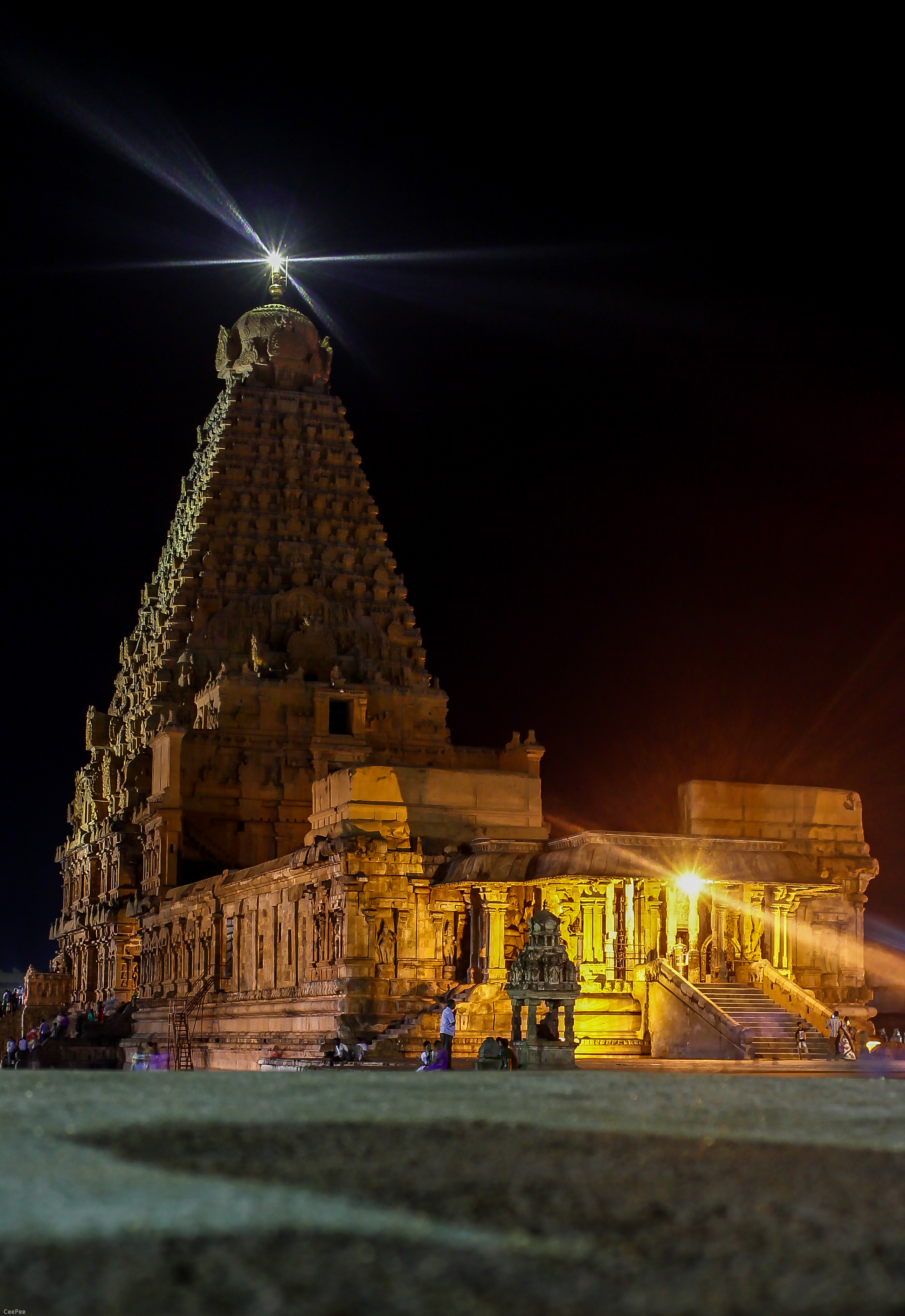 Lord Brahadeeshwarar Temple, Thanjavur built in between 985 AD - 1013 AD by the Great King Raja Raja Chola is a World Heritage Monument. Later rulers of the region Pandiyas, Nayaks and Marathas have contributed to the development of the temple.